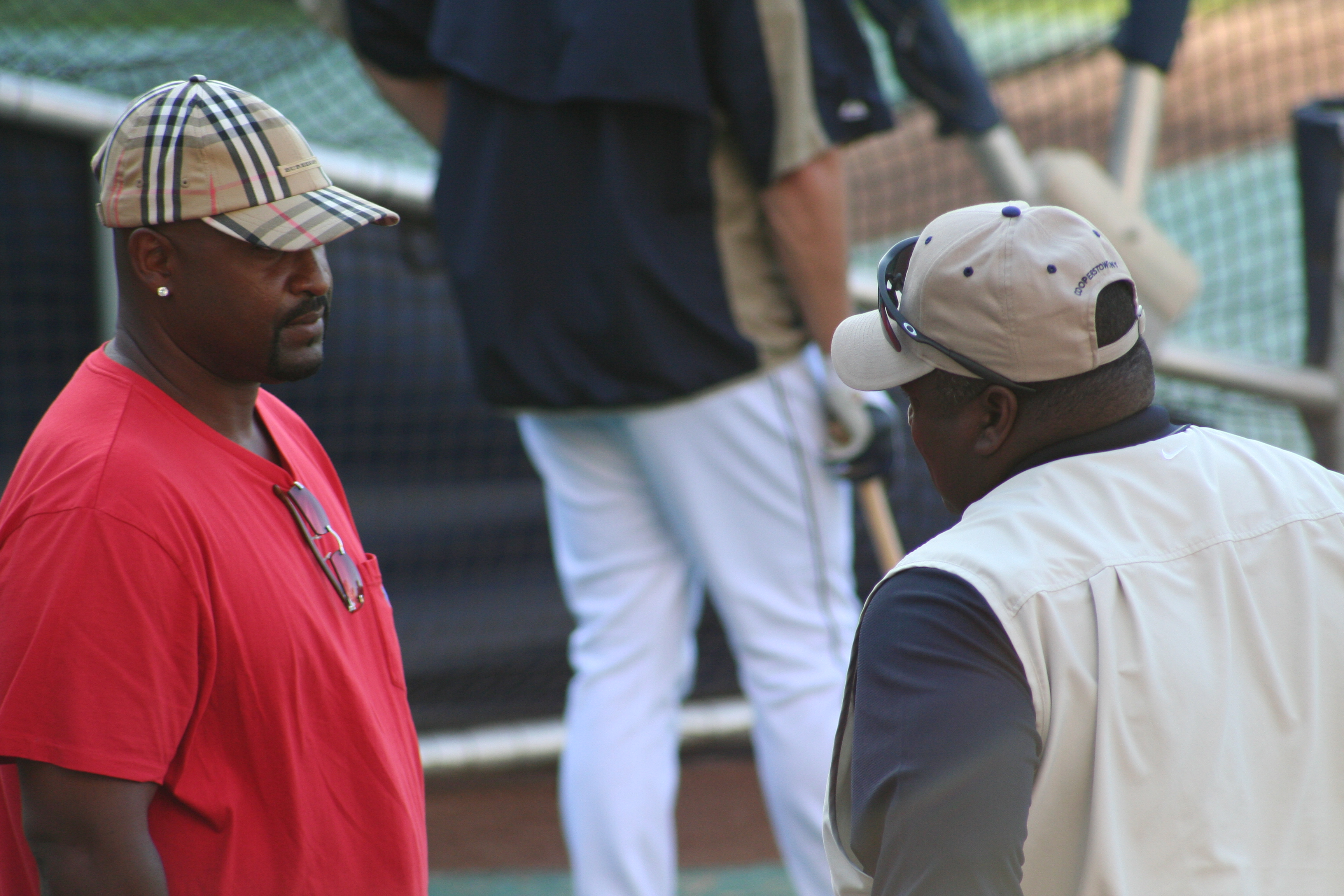 Greg Vaughn, left, stands with Tony Gwynn before a game at Petco Park in San Diego in 2006.